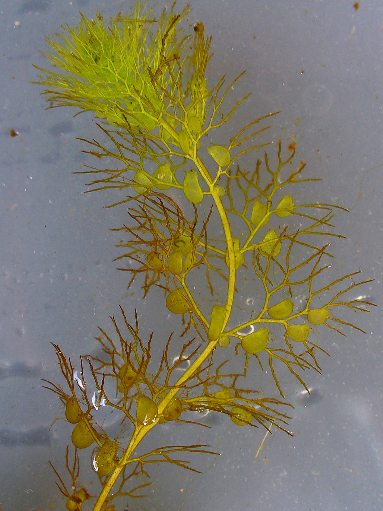 Utricularia vulgaris, Lentibulariaceae, Common Bladderwort, habitus.